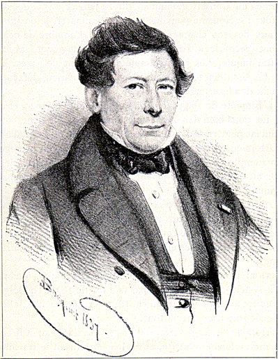 Félix, Count of Mérode (13th April 1791; 7th February 1857), lithogaph by Baugniet